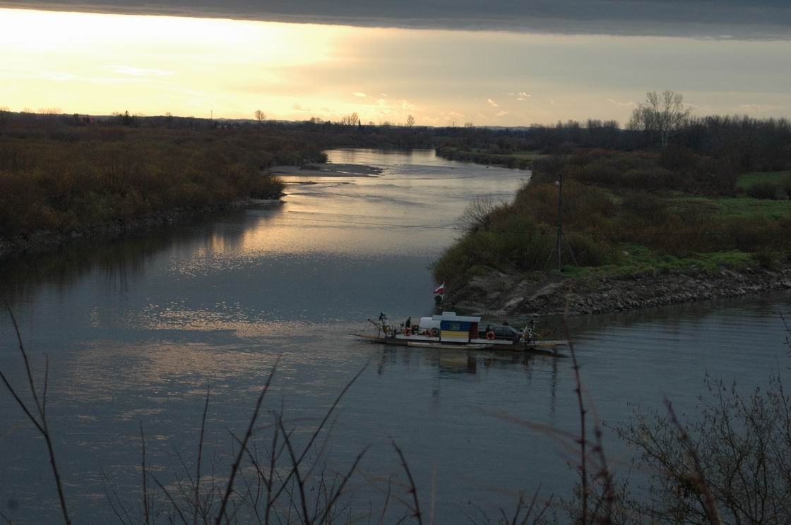 Ferry in Opatowiec